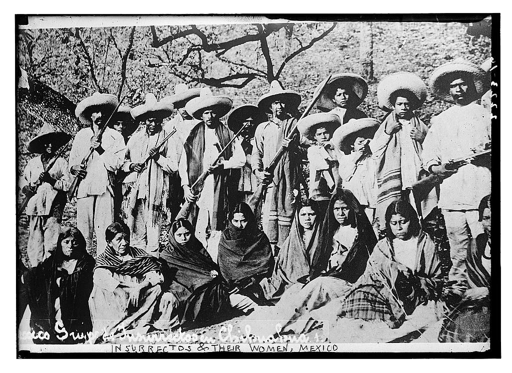 Bain News Service,, publisher. Insurrectos & their women, Mexico [between 1910 and 1915] 1 negative : glass ; 5 x 7 in. or smaller. Notes: Title from unverified data provided by the Bain News Service on the negatives or caption cards. Forms part of: George Grantham Bain Collection (Library of Congress). Subjects: Mexico Format: Glass negatives. Repository: Library of Congress, Prints and Photographs Division, Washington, D.C. 20540 USA, General information about the Bain Collection is available at Persistent URL: Call Number: LC-B2- 2223-16